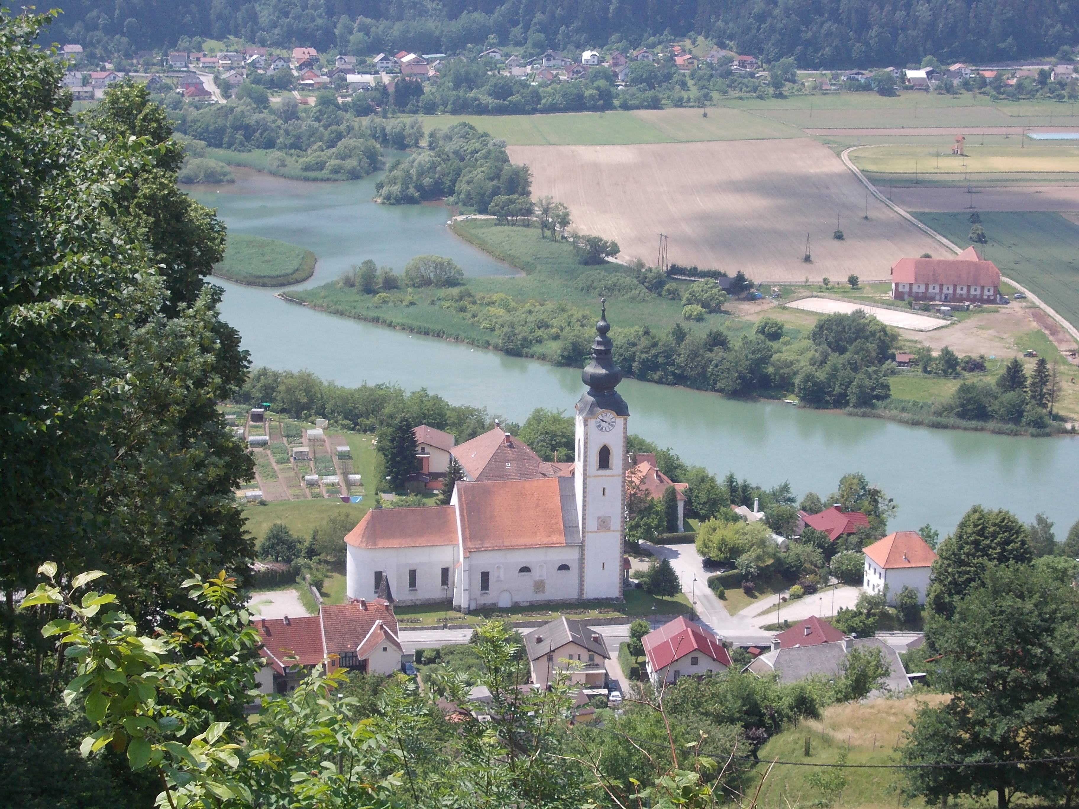 Dravograd Castle